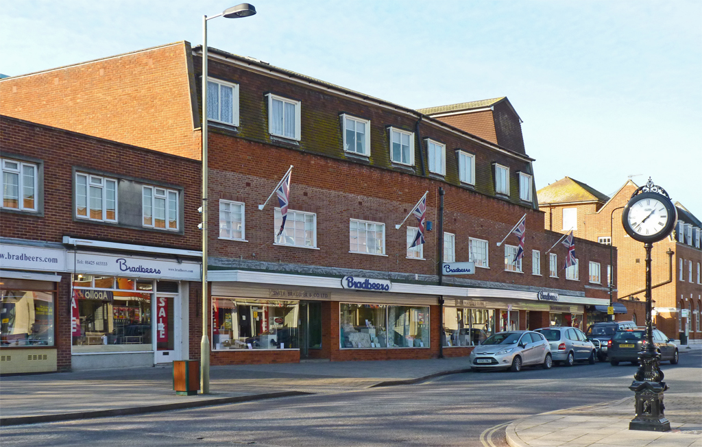 Bradbeers Departmental Store